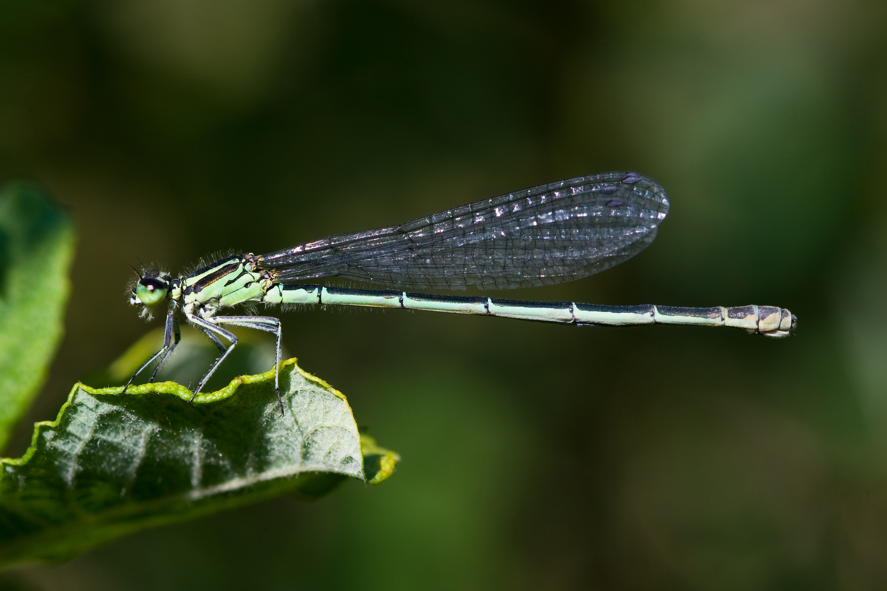 Female Azure Damselfly (Coenagrion puella), here the heteromorph (non male coloured), green variety in the Ahlenmoor, a peatland in northern Lower Saxony, Germany.